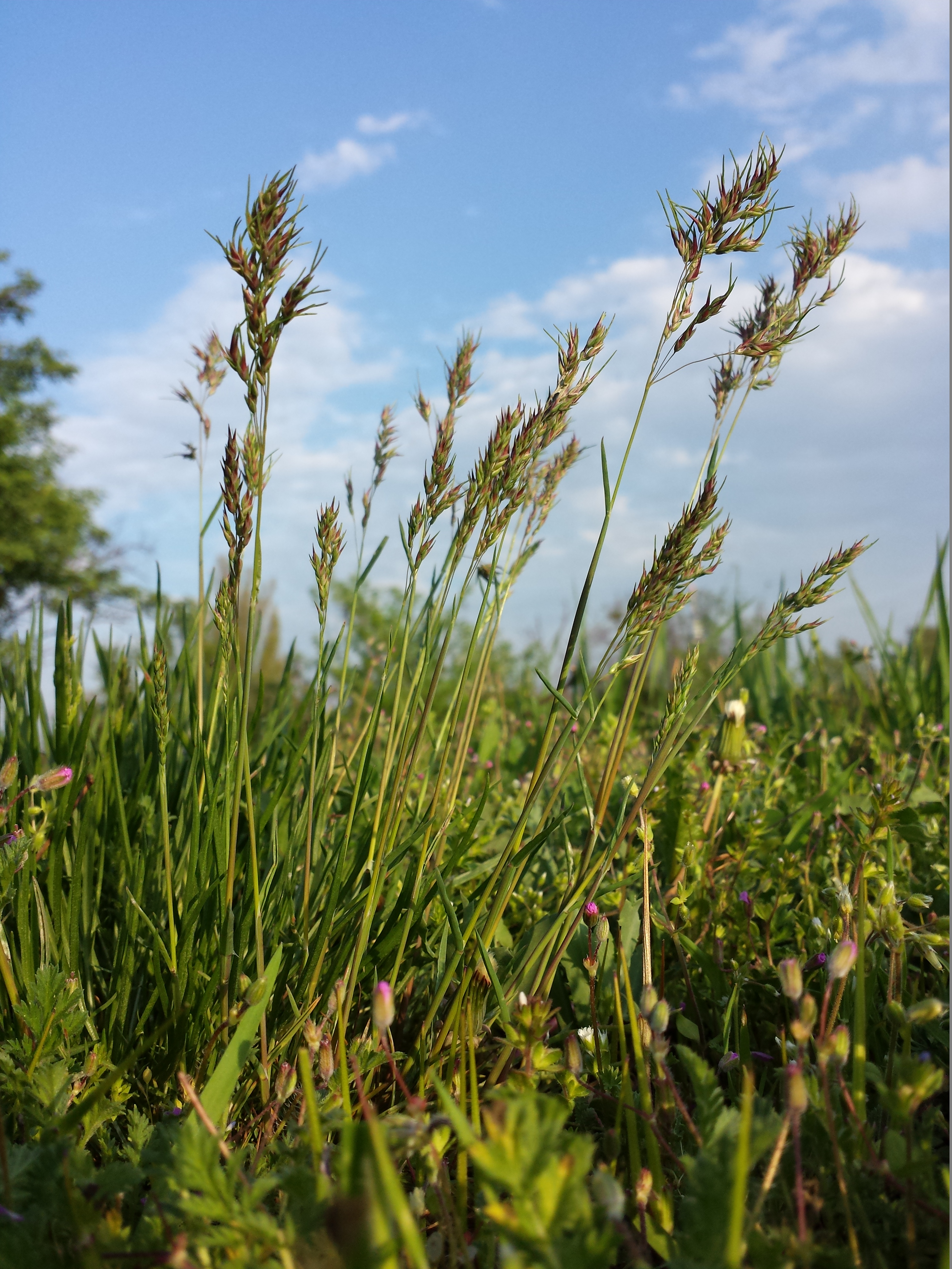 Habitus Taxonym: Poa bulbosa ss Fischer et al. EfÖLS 2008 ISBN 978-3-85474-187-9 Location: Wasserpark, Vienna-Floridsdorf - ca. 160 m a.s.l. Habitat: dry, ruderal meadows